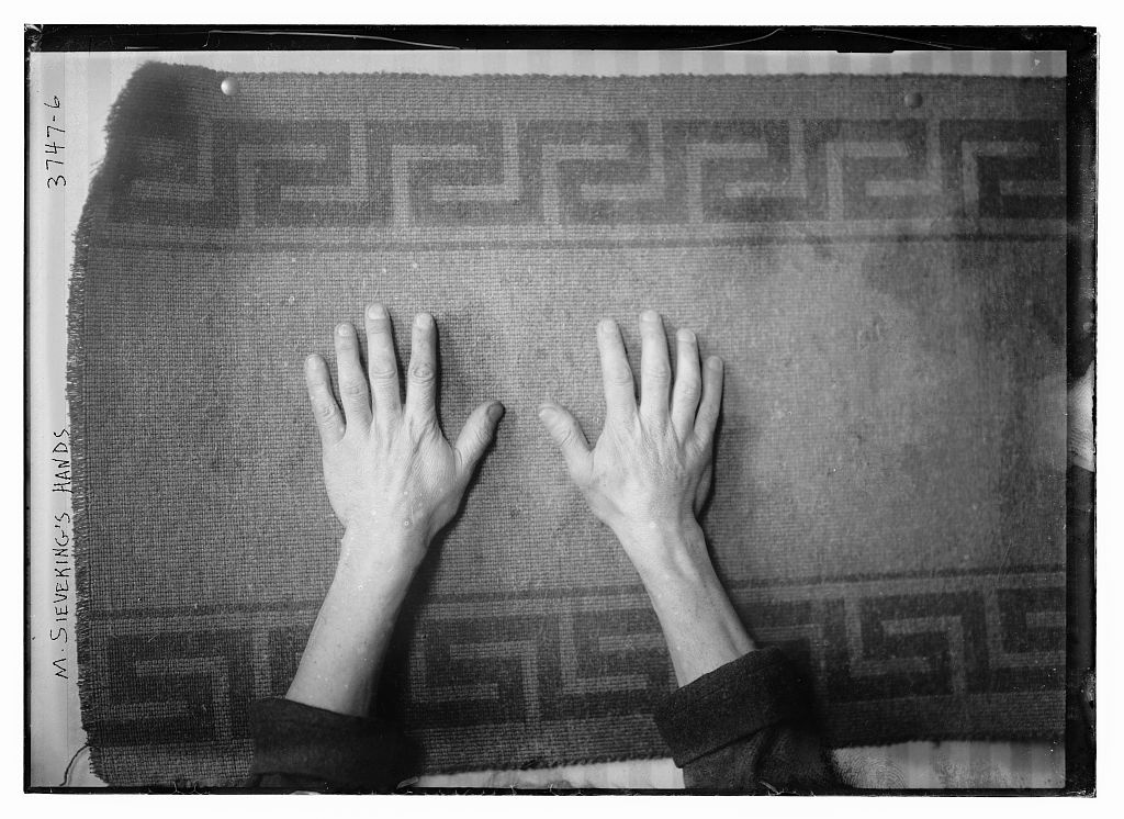 The hands of Martinus Sieveking circa 1915 in a second view.